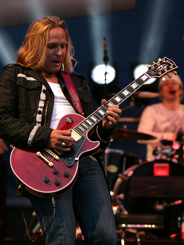 Uwe Hassbecker, on stage with Silly, Chemnitz/Saxony 2007.